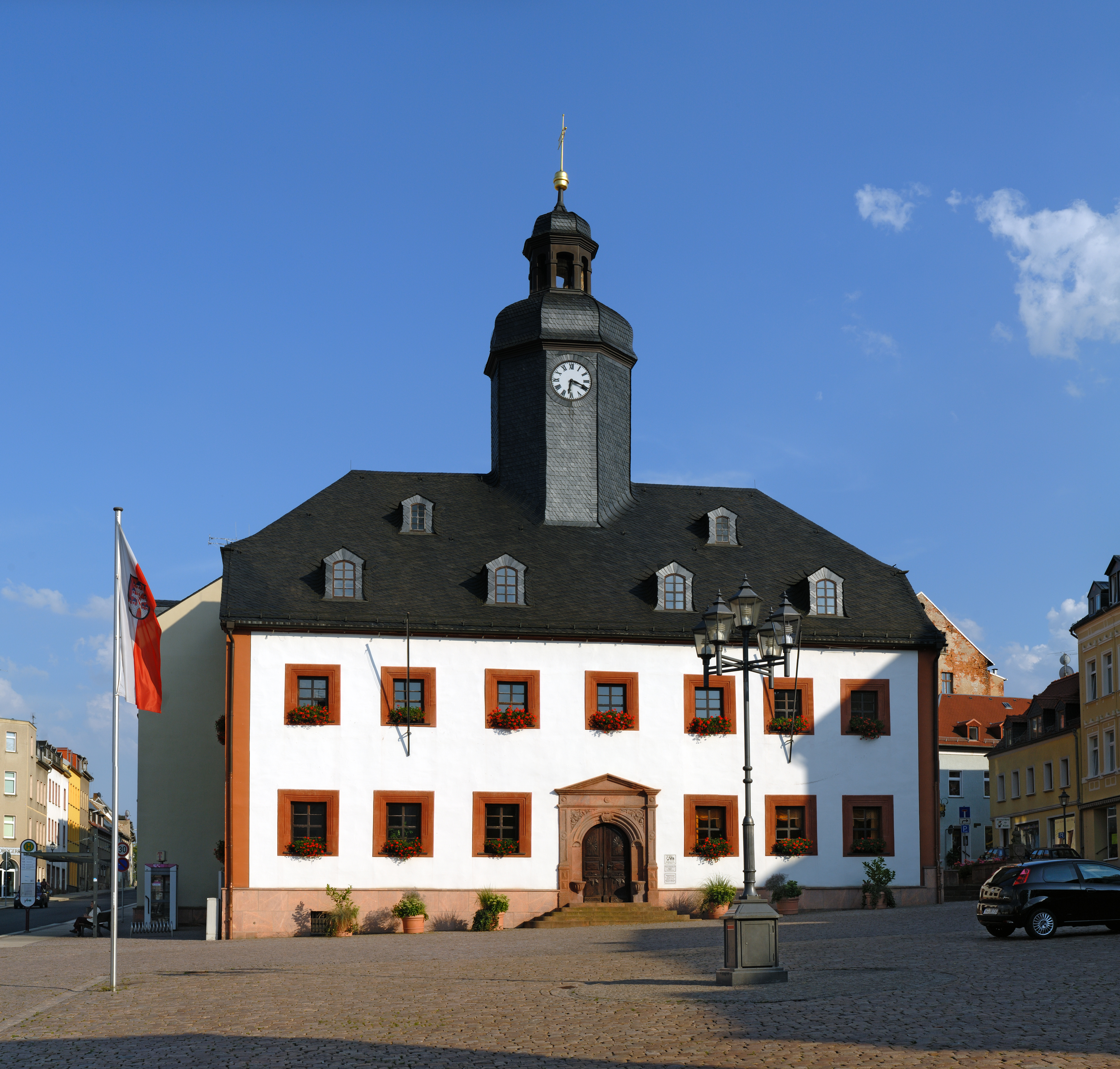 This image shows the market with the historical town hall in Meerane, Germany. It is a nine segment panoramic image.